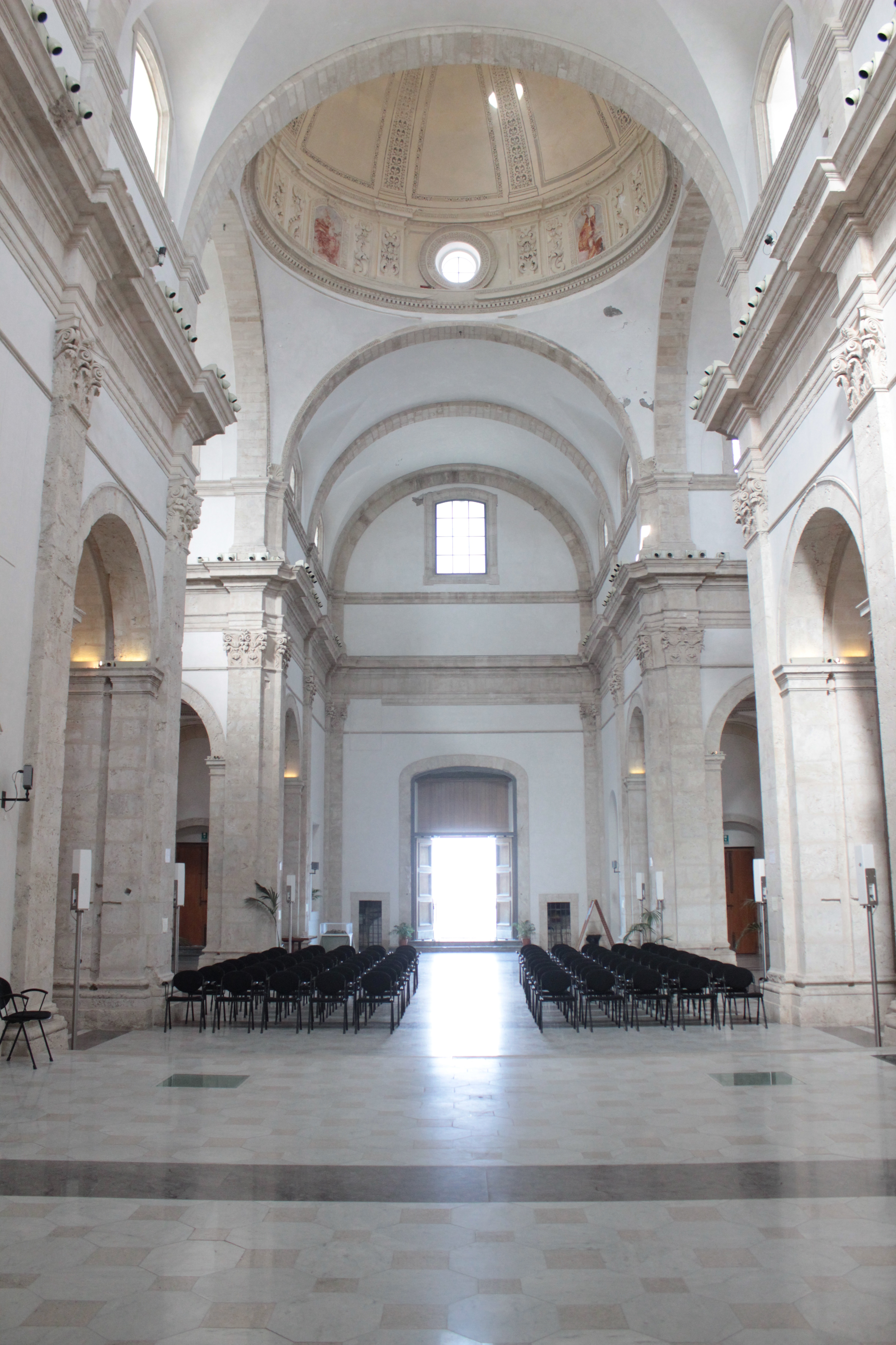 Inside of the historic Duomo di Milazzo